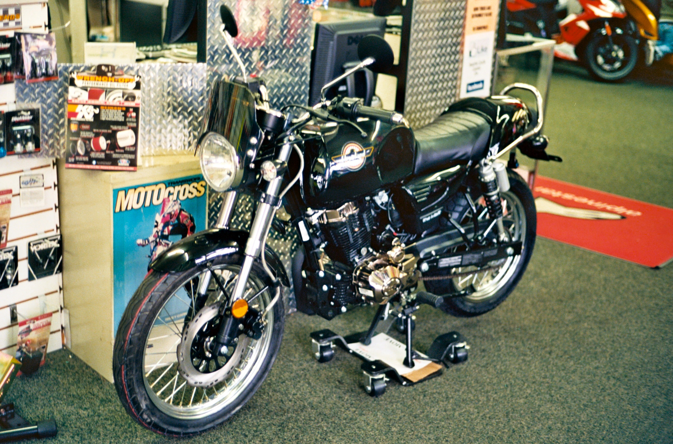 Cleveland CycleWerks Misfit At Seattle Cycle Center 10201 Aurora Avenue North Seattle, WA 98133